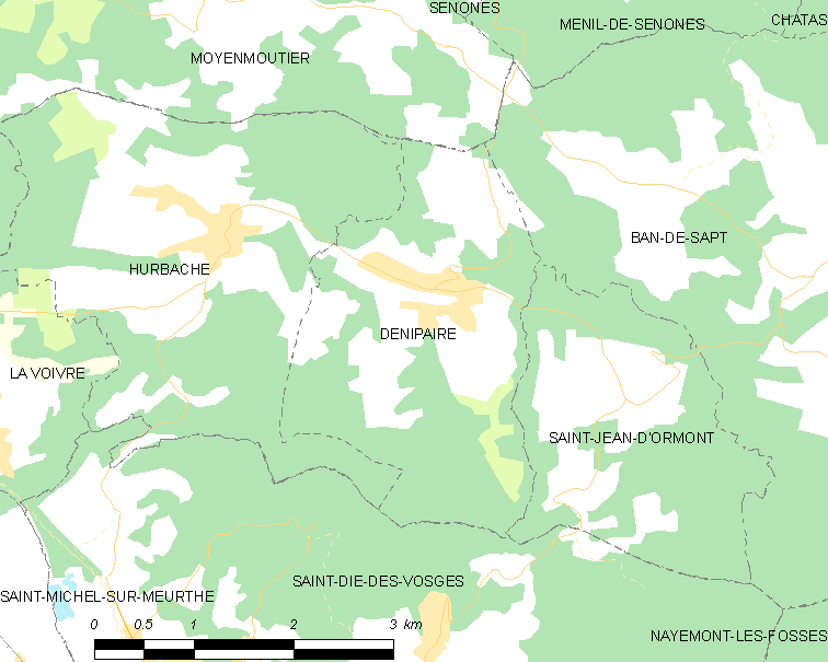 Map of French municipality Denipaire